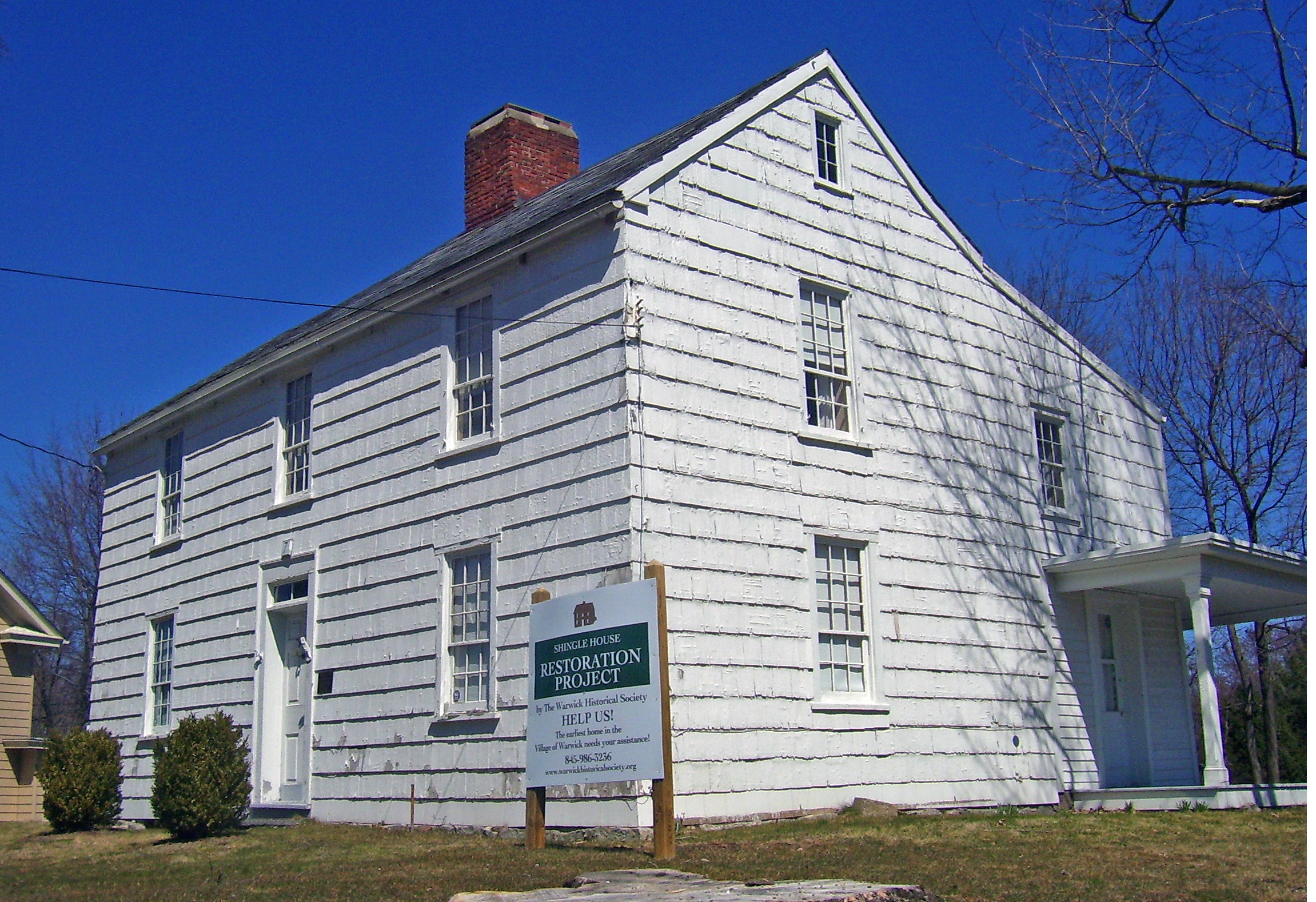 Shingle House, Warwick, NY, USA. Built by Daniel Burt in 1764, it is the oldest house in the village and a contributing property to the Warwick Village Historic District